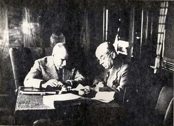 Mustafa Kemal Atatürk, policy making with Celâl Bayar.